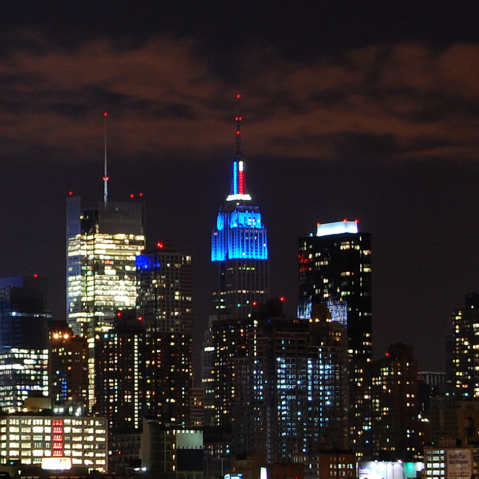 View of New York City from Weehawken, New Jersey on 2012-11-06. The lights on the Empire state building signify a win for Obama in the US Presidential Elections